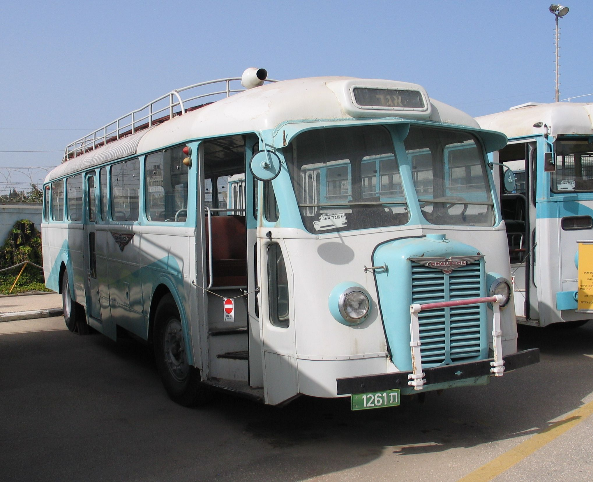 Chausson bus, in the Egged Museum, Holon, Israel.